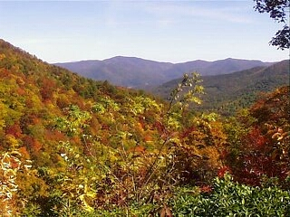 Chattahoochee National Forest. Transwiki approved by: User:Dmcdevit. This image was copied from en.